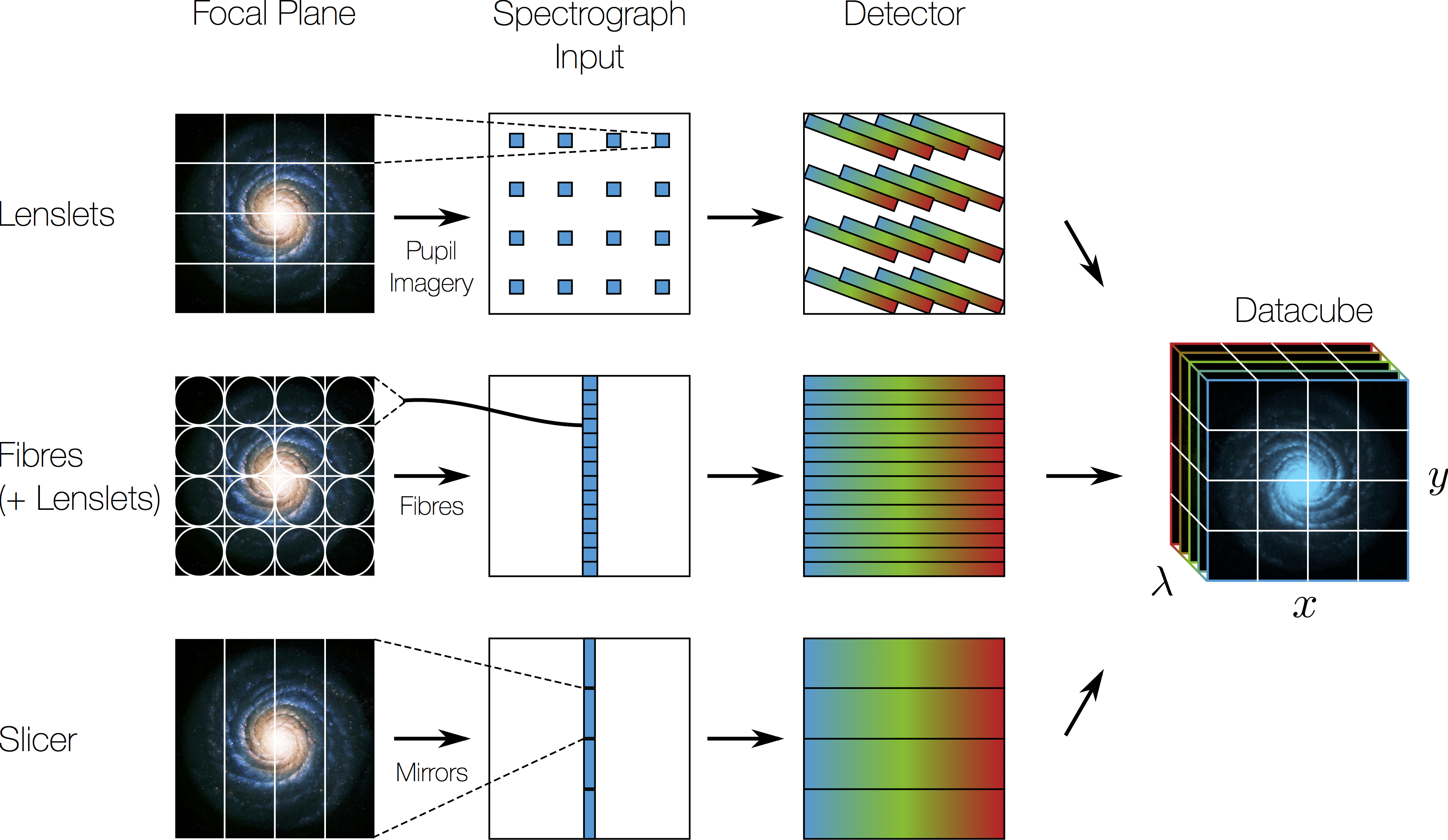 The 3 typical methods of sampling the astronomical scene; lenslet arrays, optical fiber bundles (with or without coupling to a lenslet array), and slicers